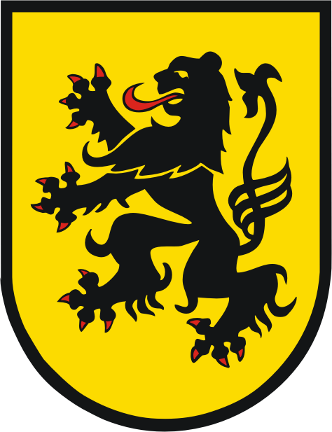 Coat of arms of the former Meißen district